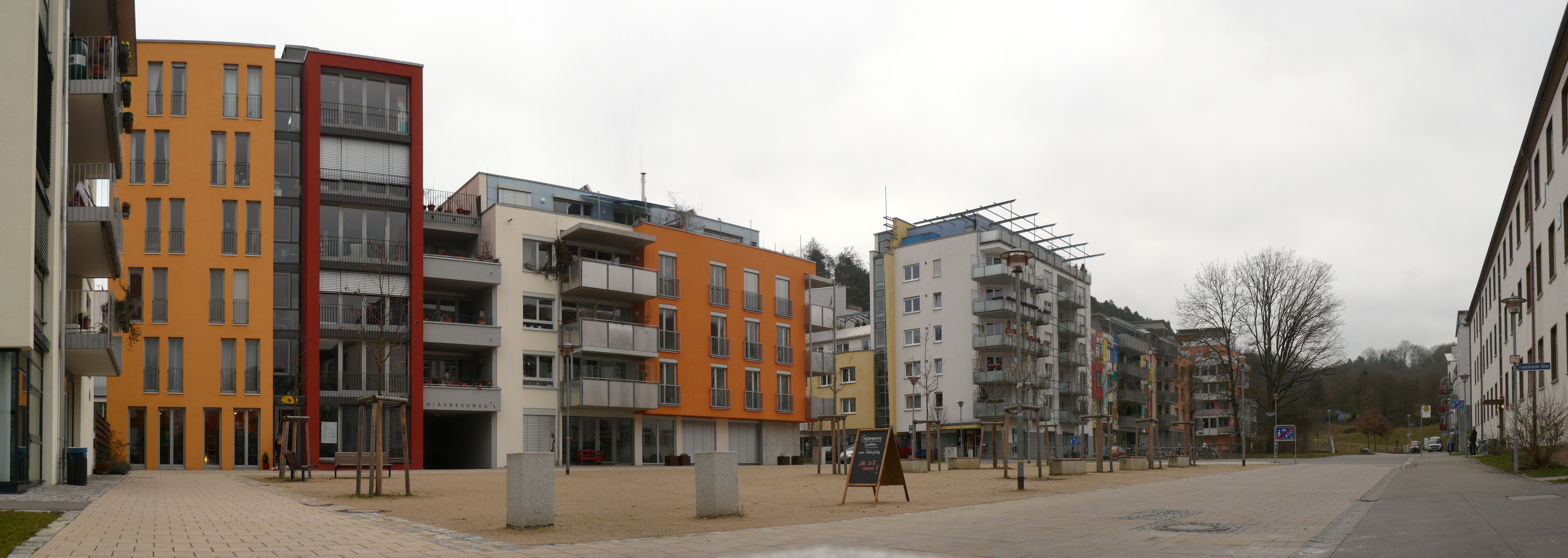 So-called French Quarter in Tübingen